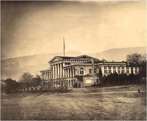 Palace of Viceroy in Tiflis